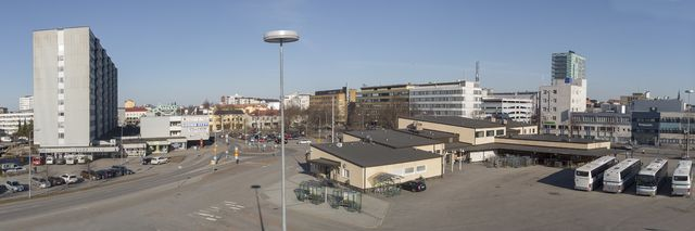 Keskusaukio square, Pori, Finland.